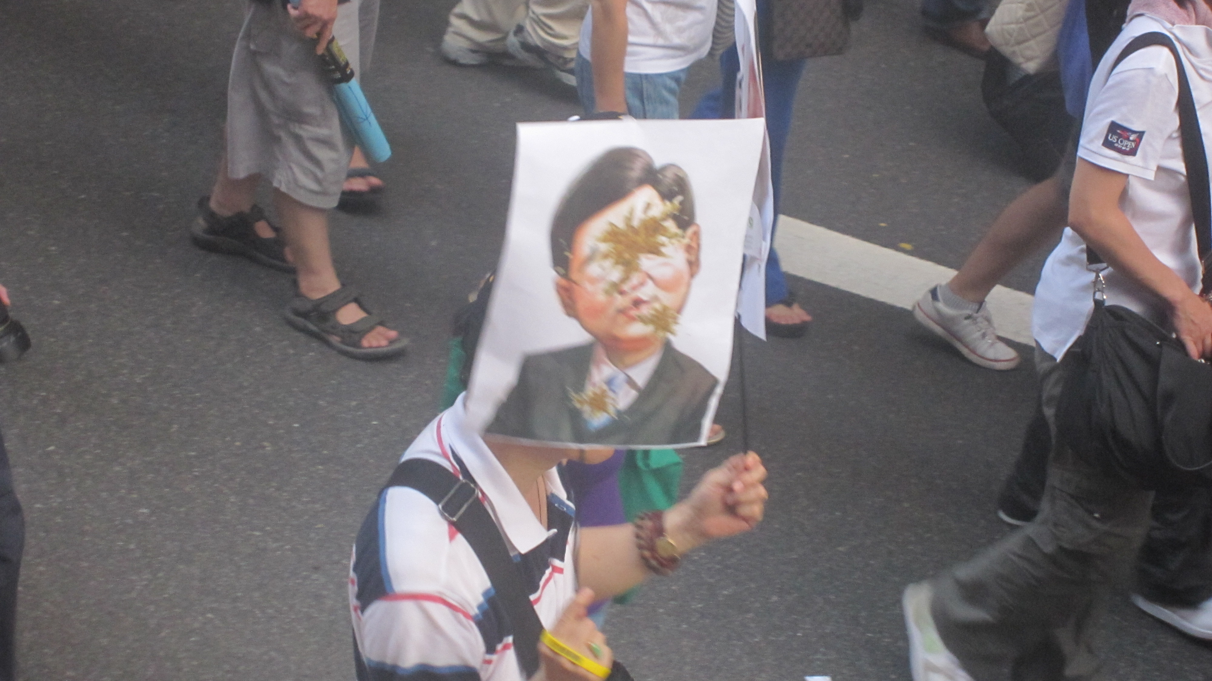 Stephen Lam